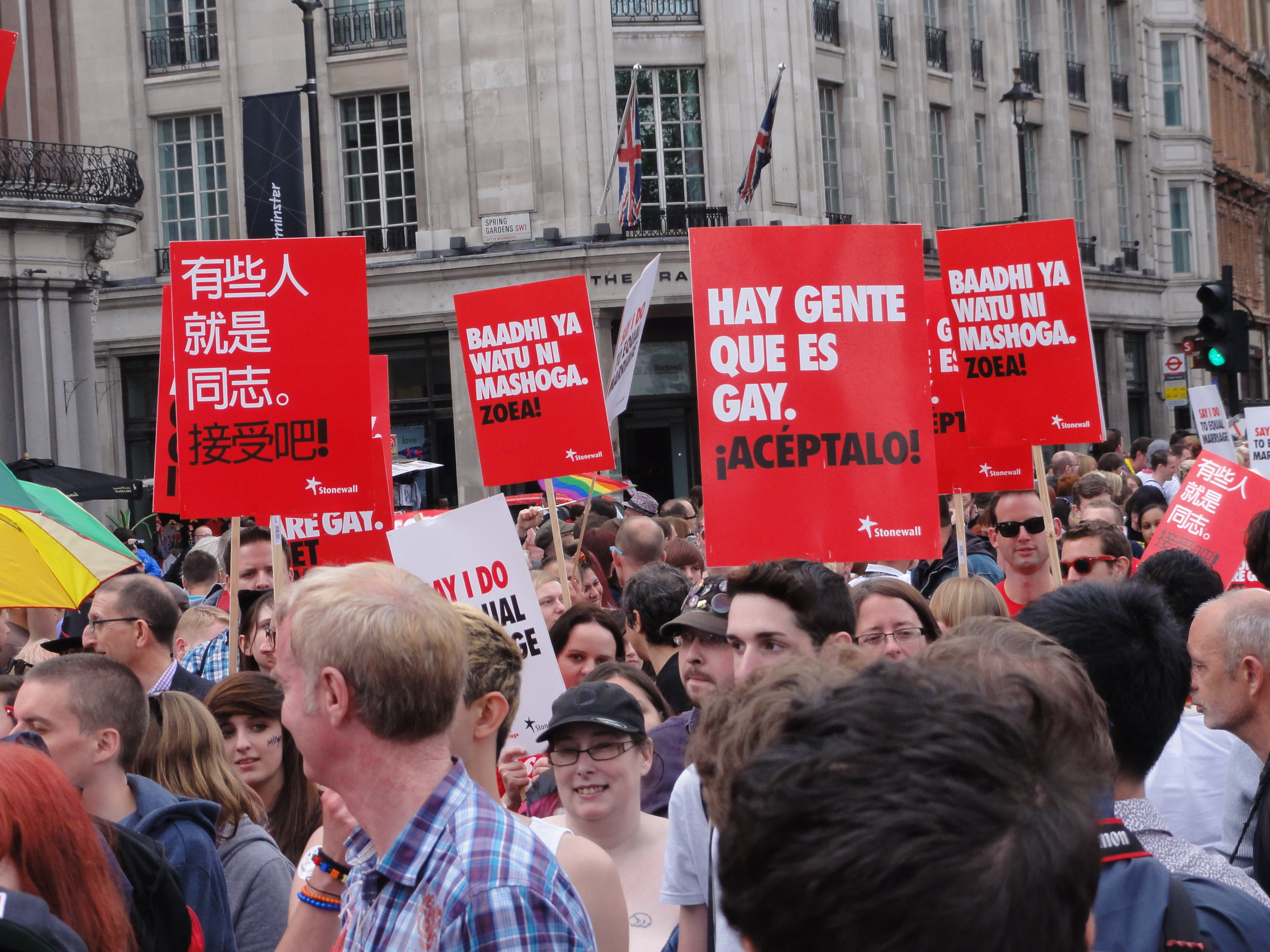 Photo taken at World Pride / London Gay Pride 2012.